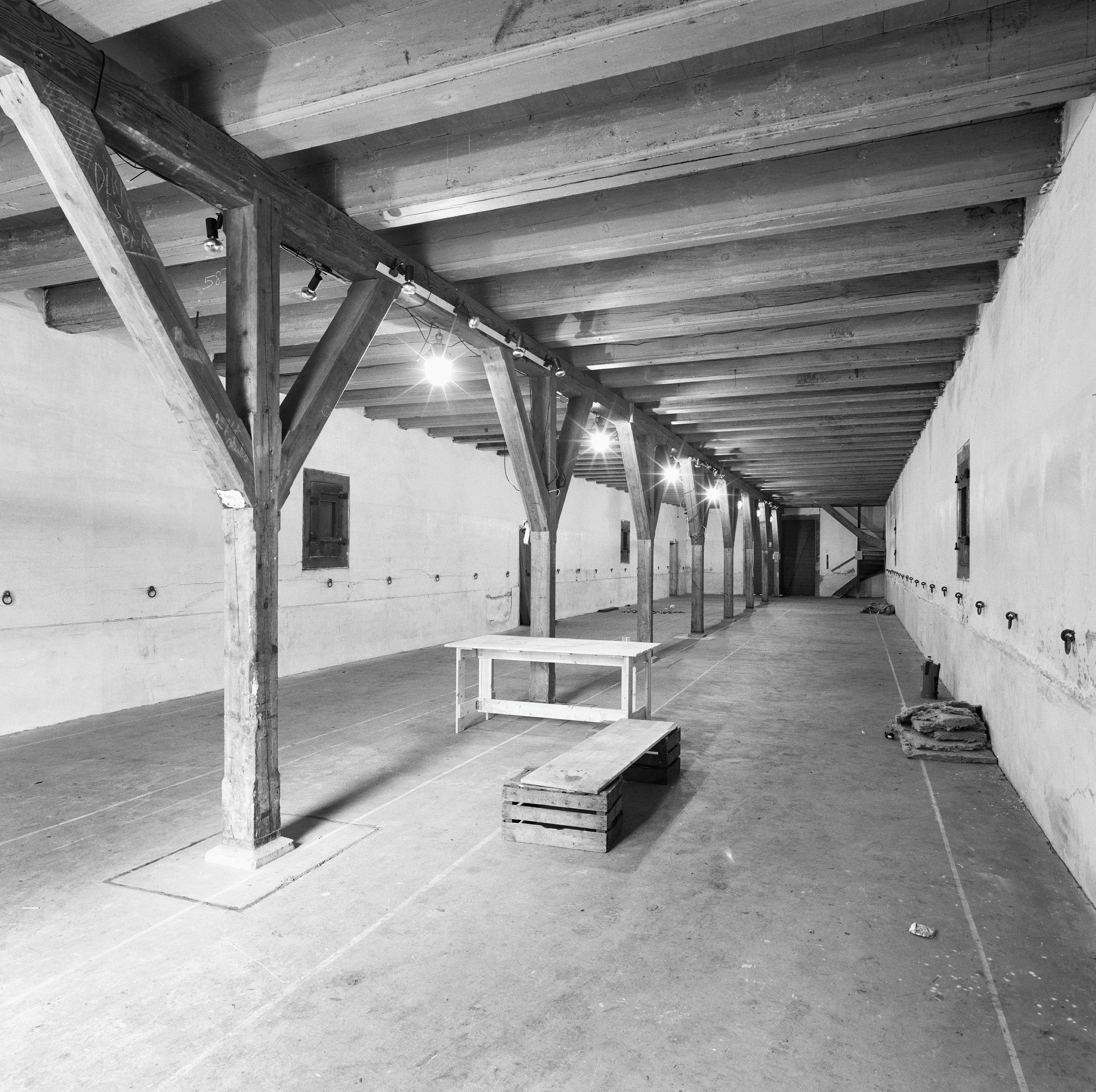 Wierickerschans Fort: Arsenal interior, southeast side